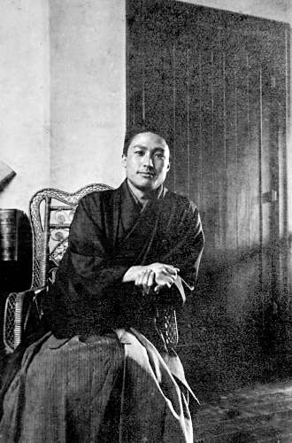 This is a photograph of Sadamichi Hirasawa whom Hakutei Ishii photographed.